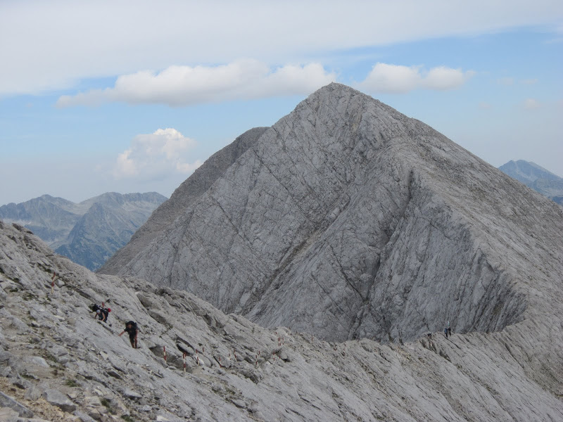 Kutelo, 2908 m